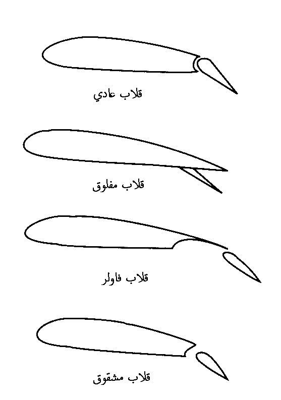 Different types of flaps for aircrafts